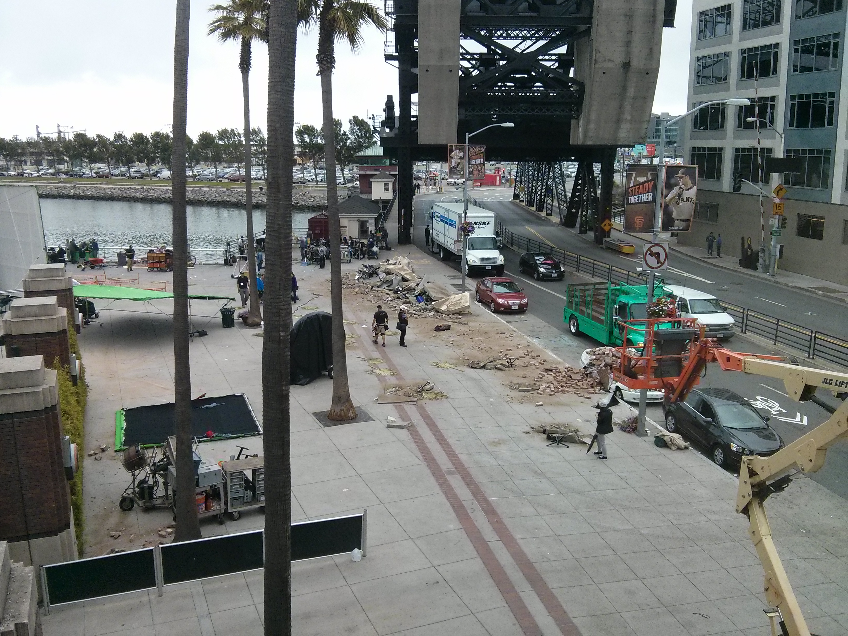 San Andreas filming in progress outside AT&T Park